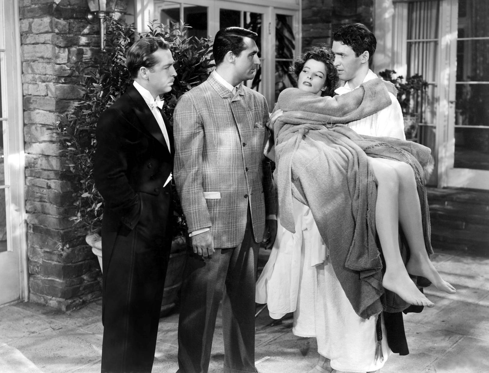 Photo of John Howard, Cary Grant, Katharine Hepburn and James Stewart from the 1940 film The Philadelphia Story. Note that the uploaded photo is a better, larger copy of the one scanned from the book. A search for renewals was done in books for the years 1970 and 1971. Neither the title nor the author was listed; there's no evidence of copyright continuing on this book.